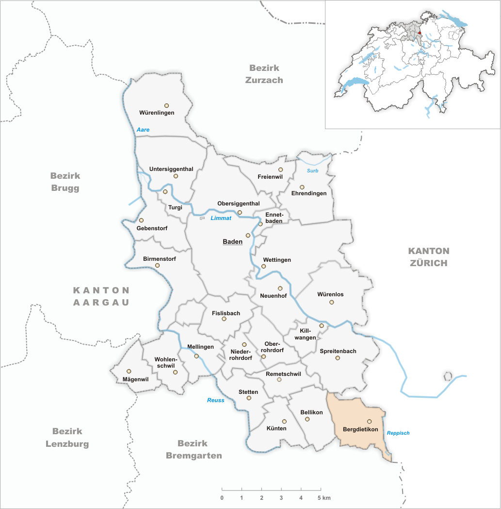 Municipality Bergdietikon